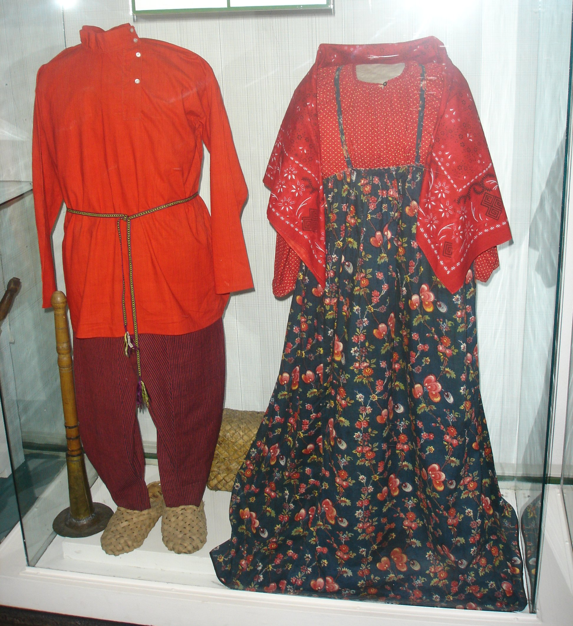 Russian costume in end of 19th - begining of 20th century. In Suzdal History Museum.